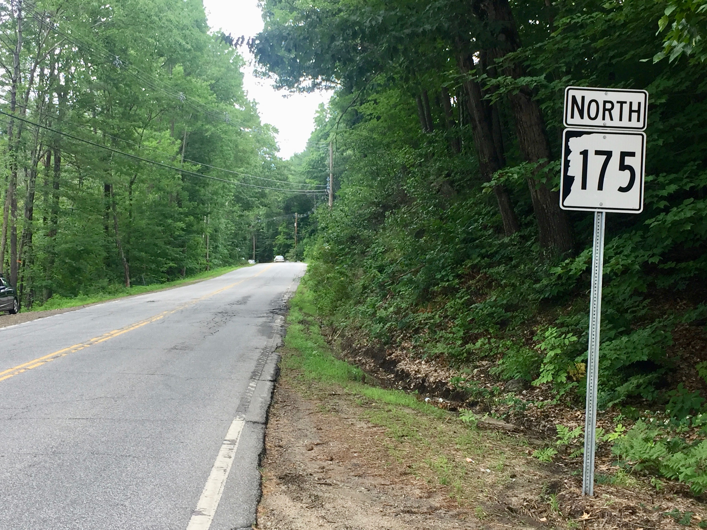 New Hampshire Route 175 at its southern starting point in Holderness, New Hampshire